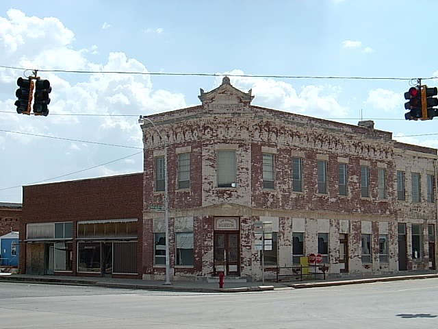 Corner of Sheb Wooley and Roger Miller streets. The two main streets of Erick, Oklahoma are named after two musicians from the area.